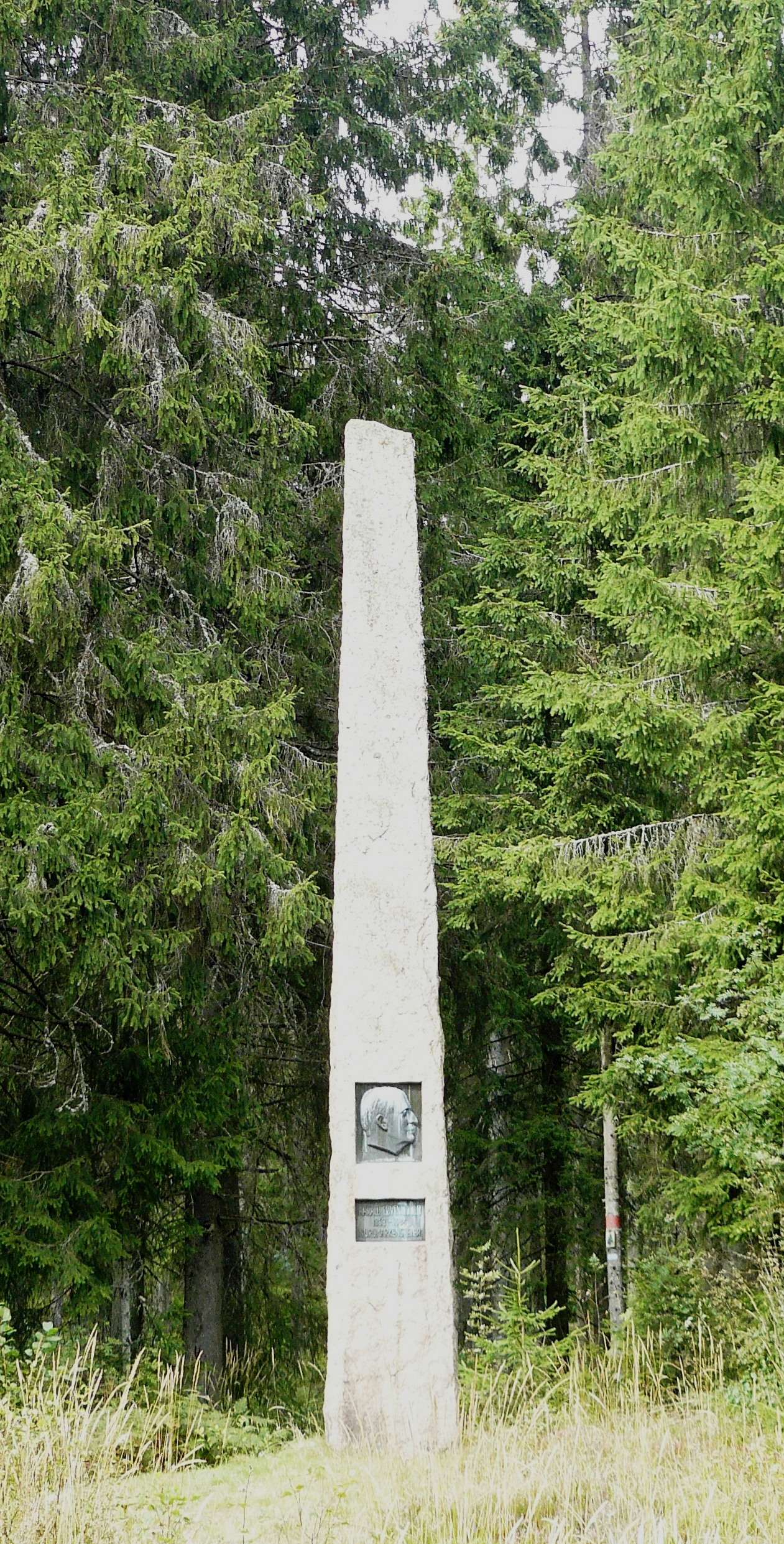 Obelisk in memory of Harald Løvenskiold, placed in Nordmarka, Oslo, By Kikut